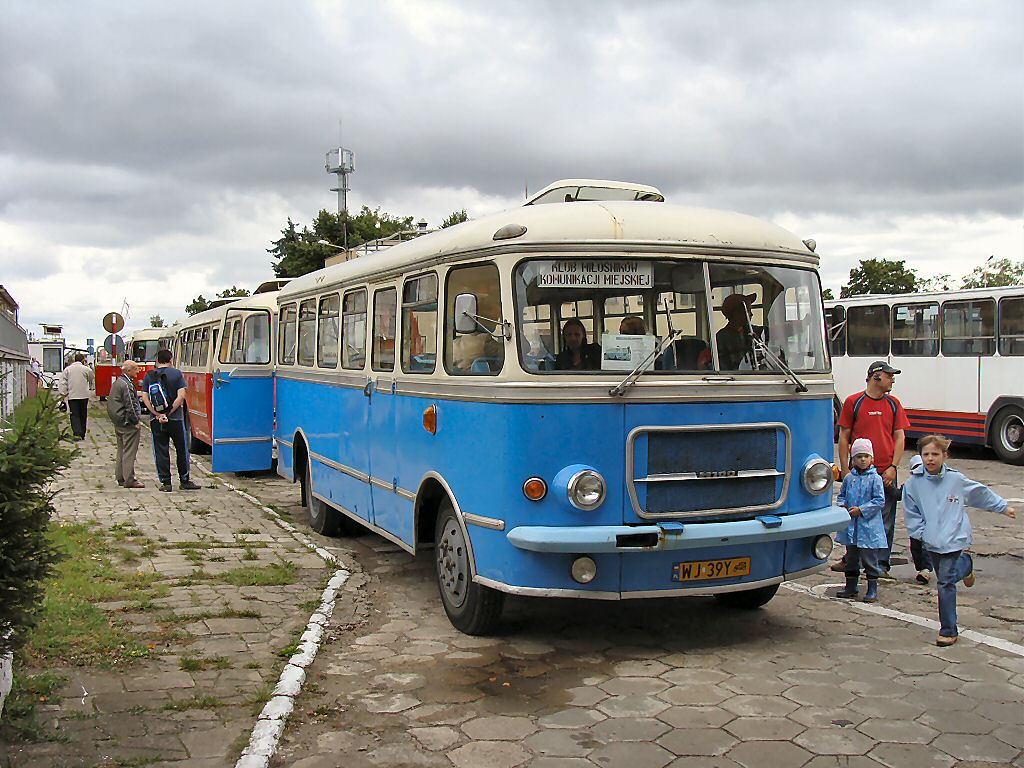 San H100A old bus (#8082) in Poland. Built 1972, belongs to KMKM Warszawa.